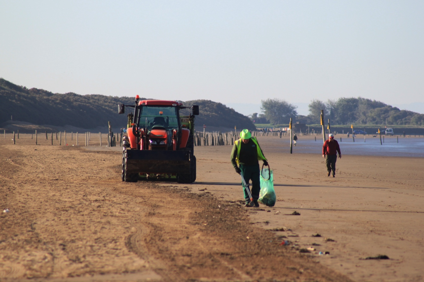 Cleaning the beach at Weston-super-Mare by tractor and hand-held litter picker.